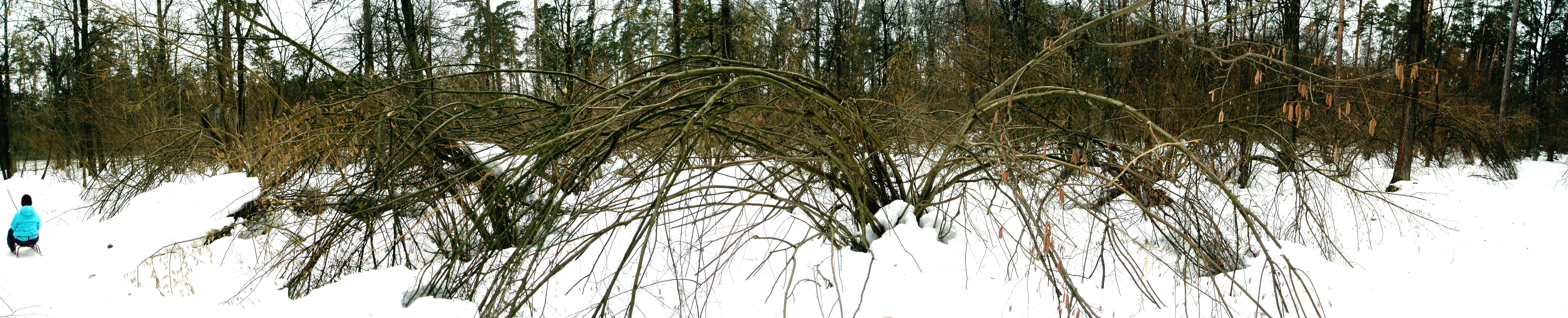 The Common Hazel in the forest near Kyiv in winter.